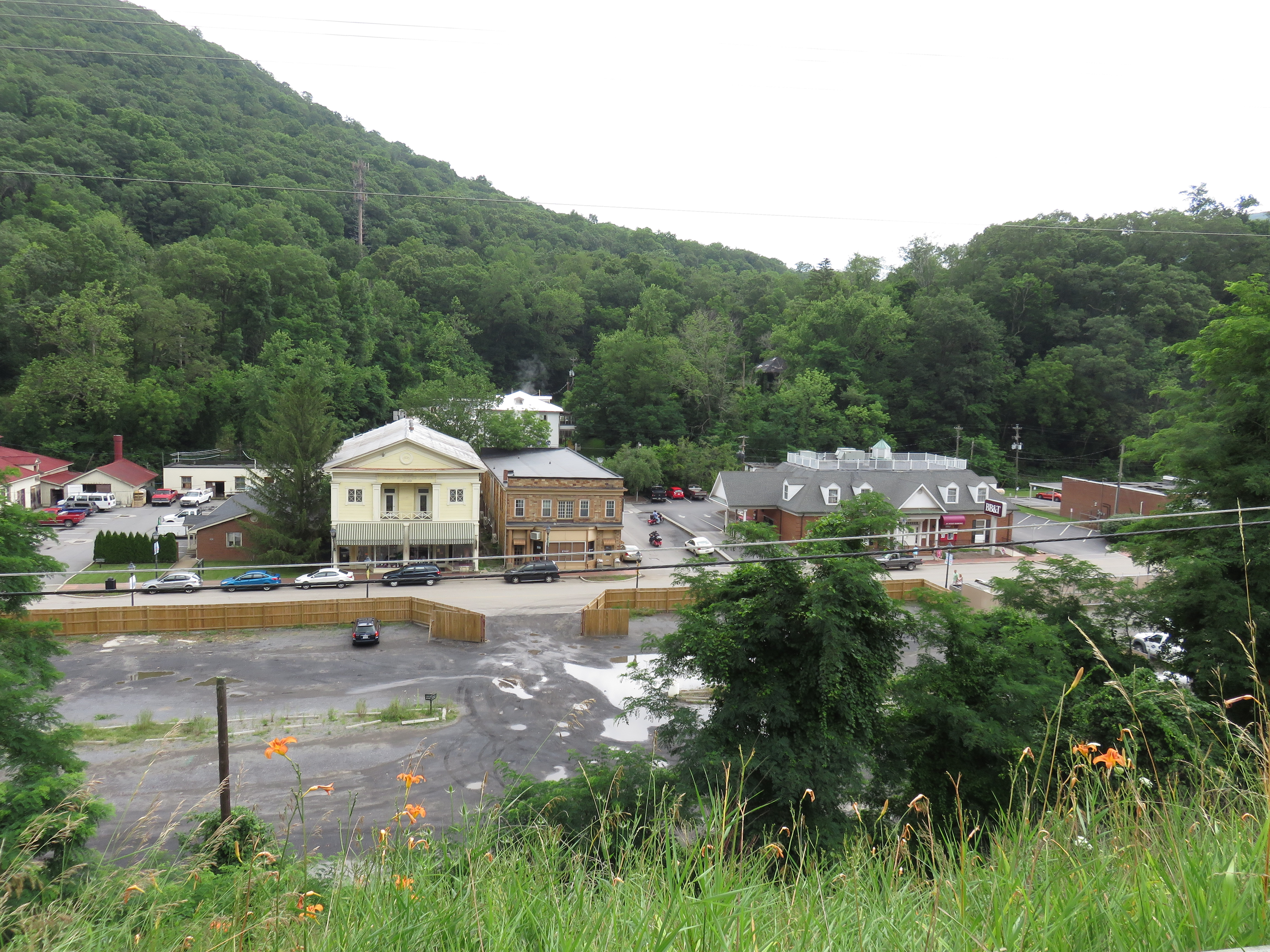 Downtown Hot Springs, Virginia in 2016